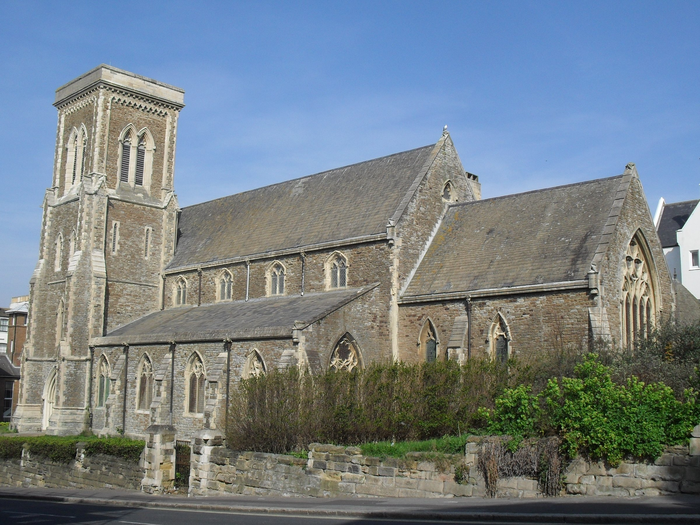 Greek Orthodox church of St Mary Magdalen, St Margaret's Road, Hastings, East Sussex, seen from the southeast. Designed by Frederick Marrable and built in 1852 as the Church of England parish church of St Margaret. Bought by the Greek Orthodox community in 1982.